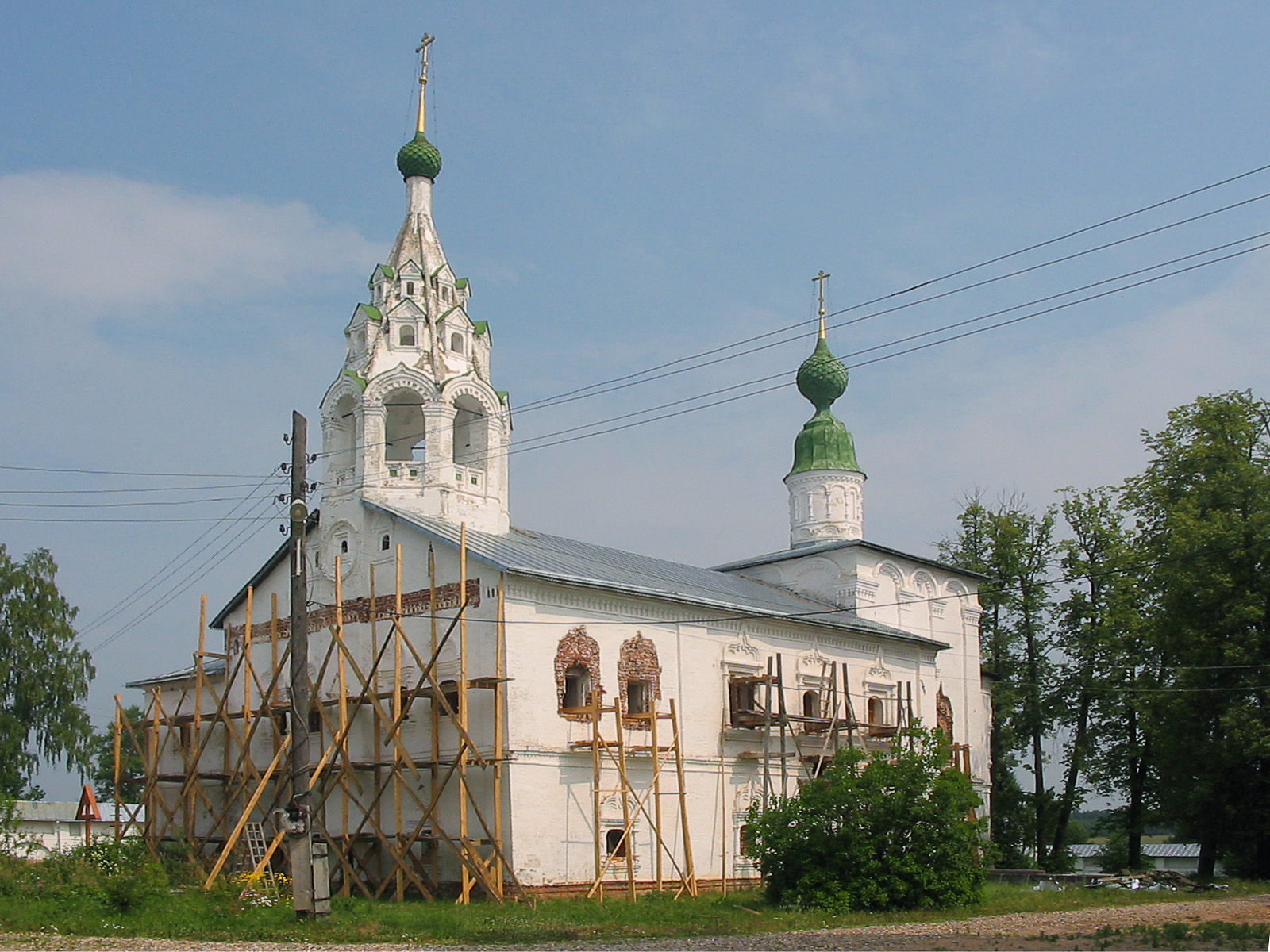 Vvedenskaya Church (XVI-XVII c), Uleima Monastery, Uleima, Uglich district of Yaroslavl region